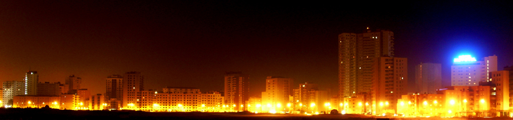 Northern Póvoa skyline at night.